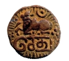 Created by me Jnumis 23:52, 26 February 2007 (UTC)